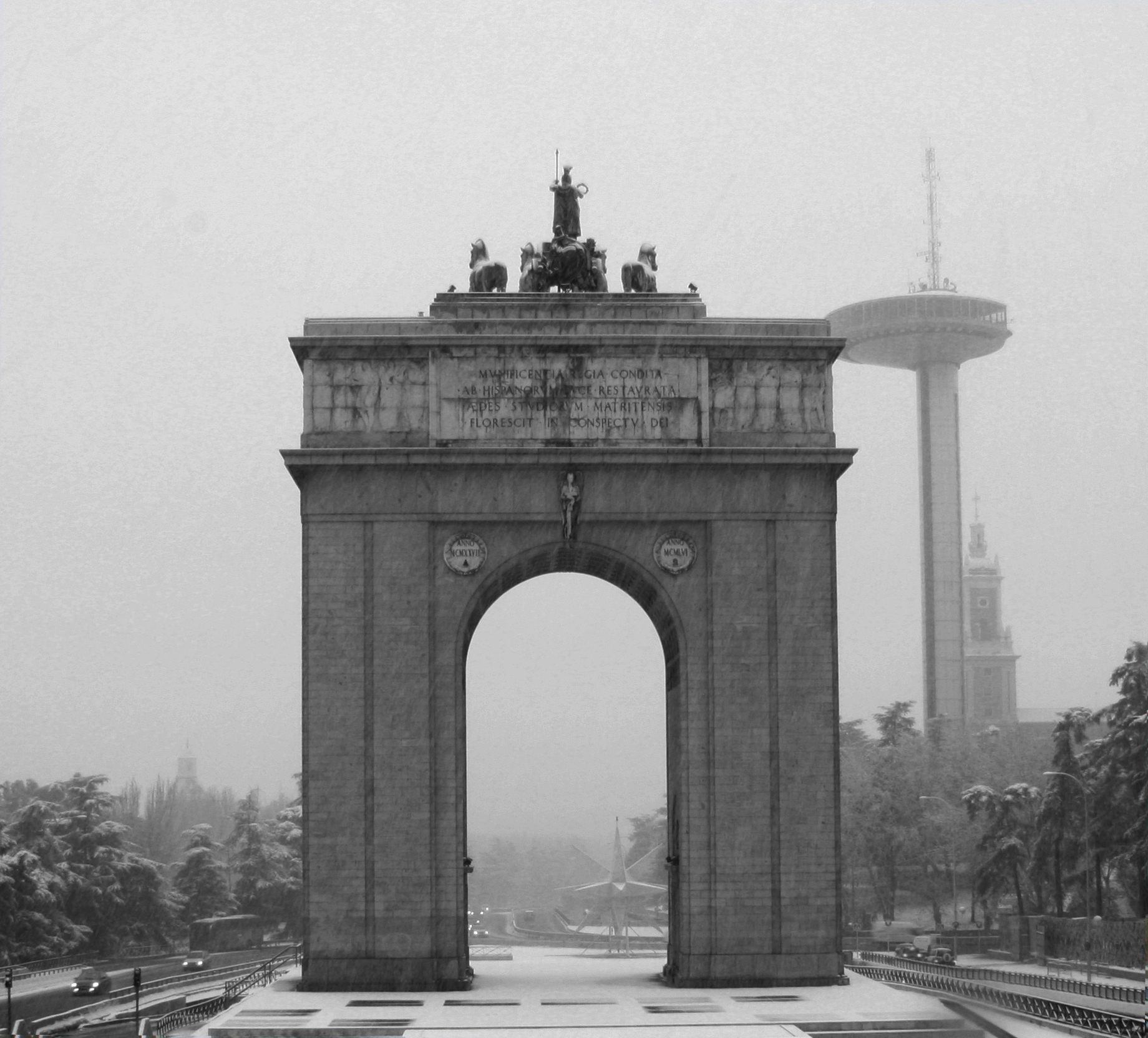 Arco de la Victoria (literally "Arch of Triumph") in Madrid (Spain), after a snowfall.